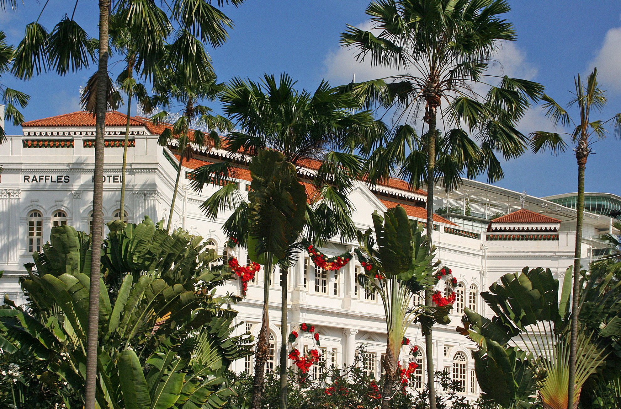 Description: The Raffles Hotel as seen from Beach Road surrounded by lush greenery. Source: Self-made Location: Raffles Hotel, Singapore Date: 13/11/2005 09:58 Photographer/Painter: Huaiwei